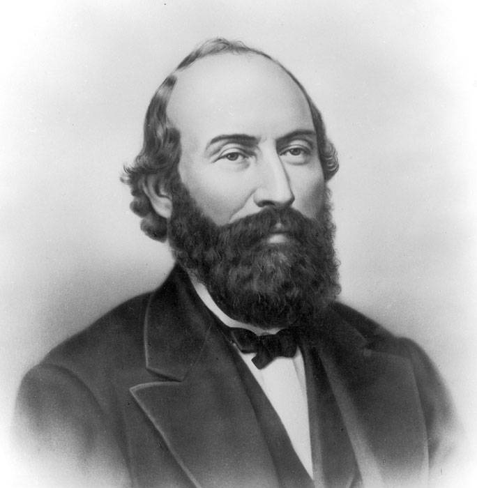 Photo of John Wilson Shaffer, governor of the territory of Utah in 1870.